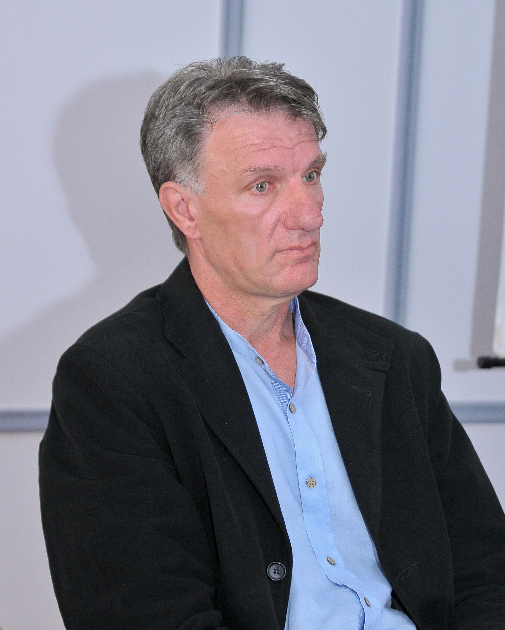 Novica Telebak, poet from Trebinje.